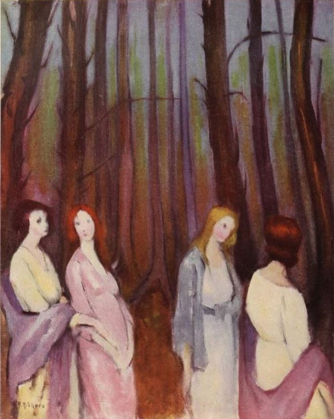 "Among the Trees" by Henrietta Shore, on page 8 of the July 1923 Shadowland.